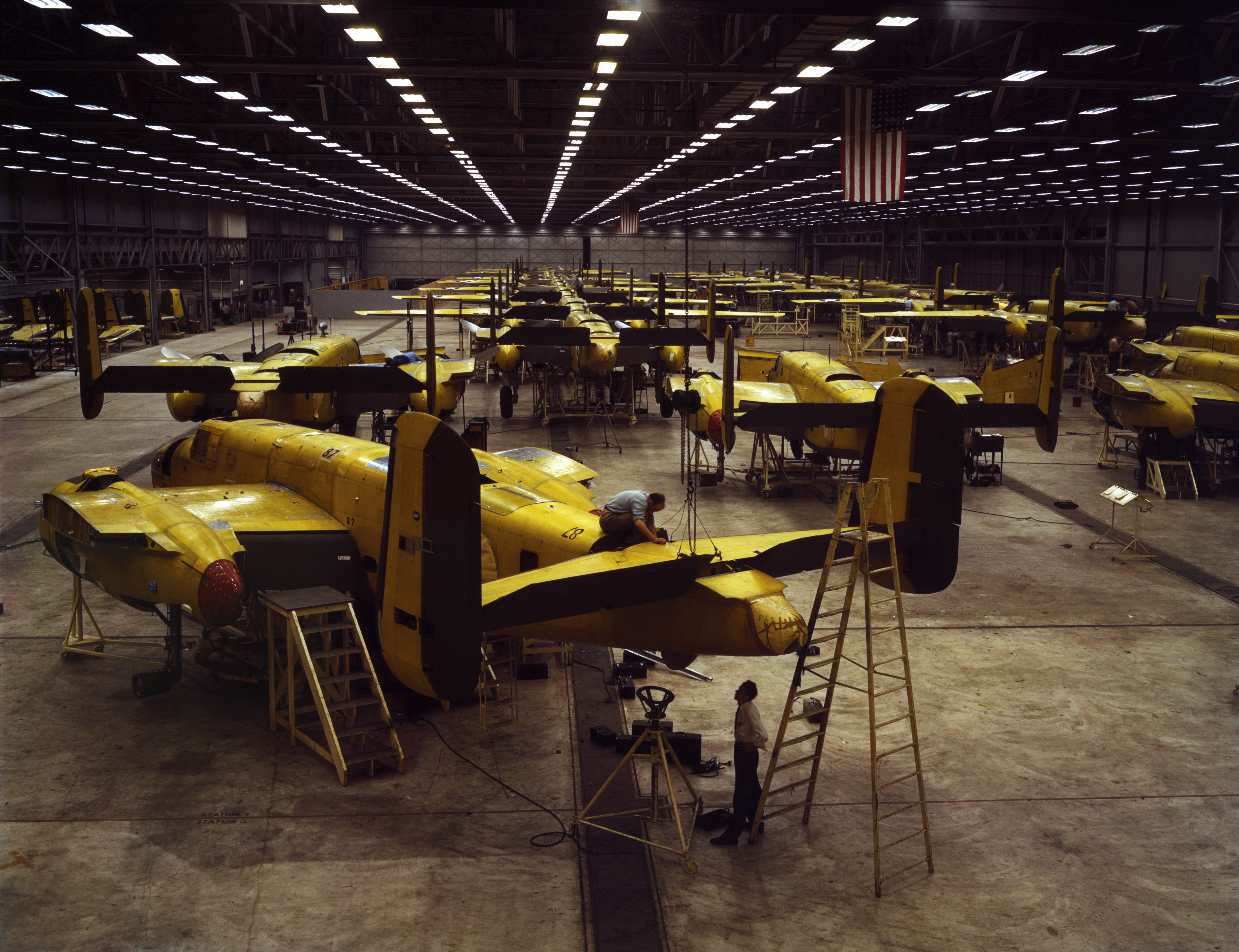 Assembling the North American B-25 Mitchell at Kansas City, Kansas (USA). Reproduction digitized from original 4x5 color transparency.